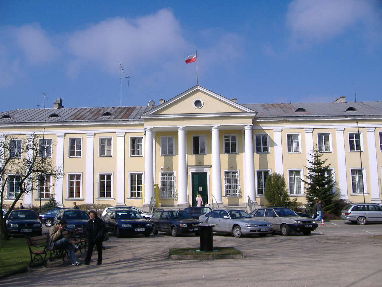 The seat of the Siedlce city authorities